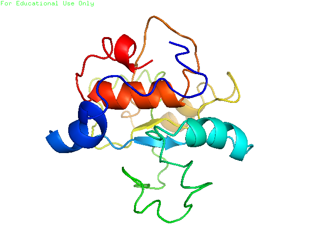 The predicted secondary structure of the human FAM231B protein